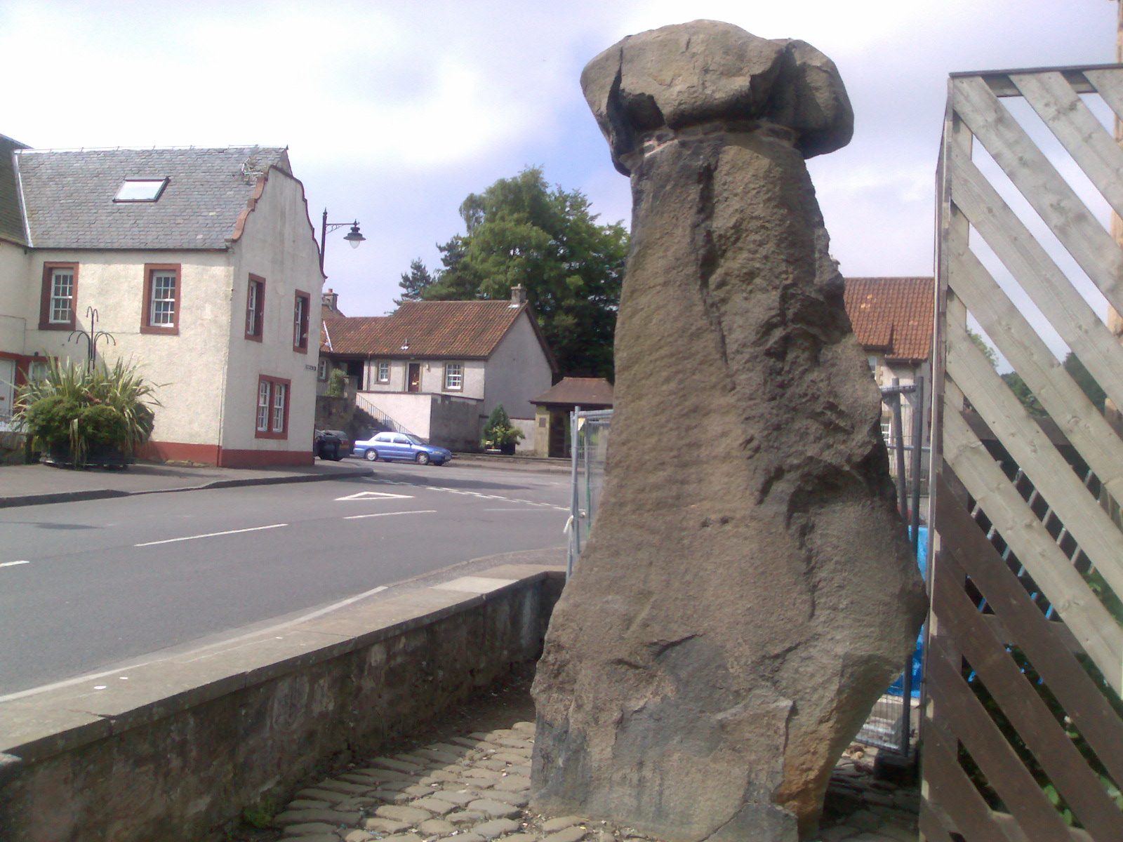 stone with car and road